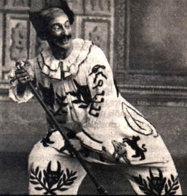 Pepino, Jose Podestá (1858-1937)